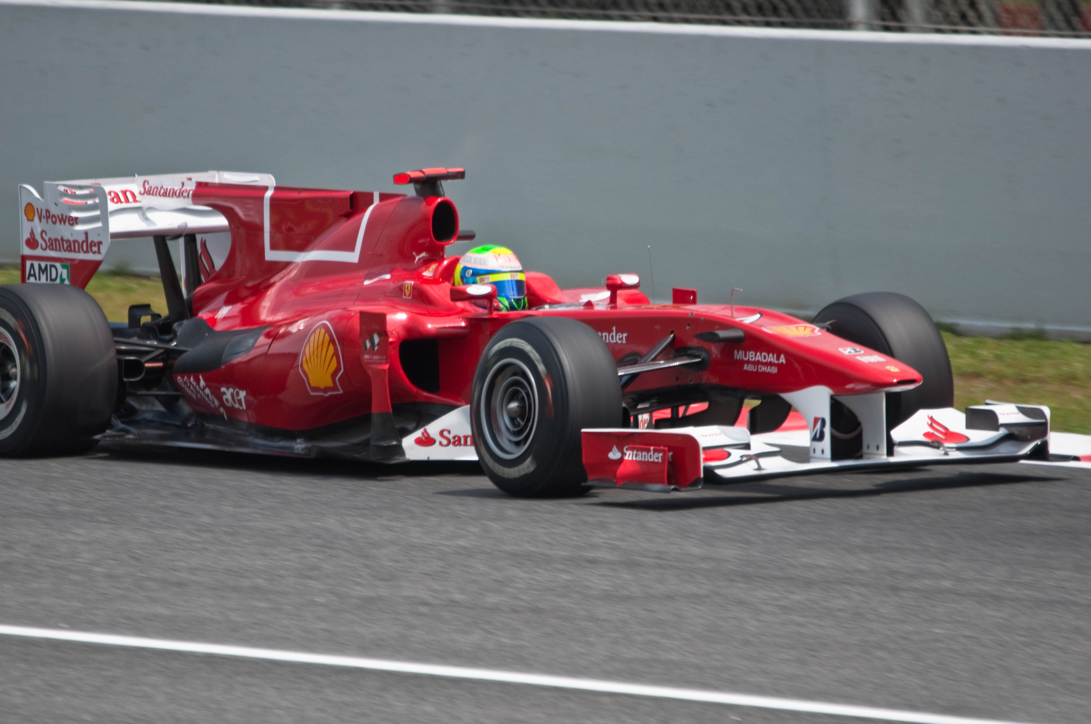 Felipe Massa driving for Scuderia Ferrari at the 2010 Spanish Grand Prix.